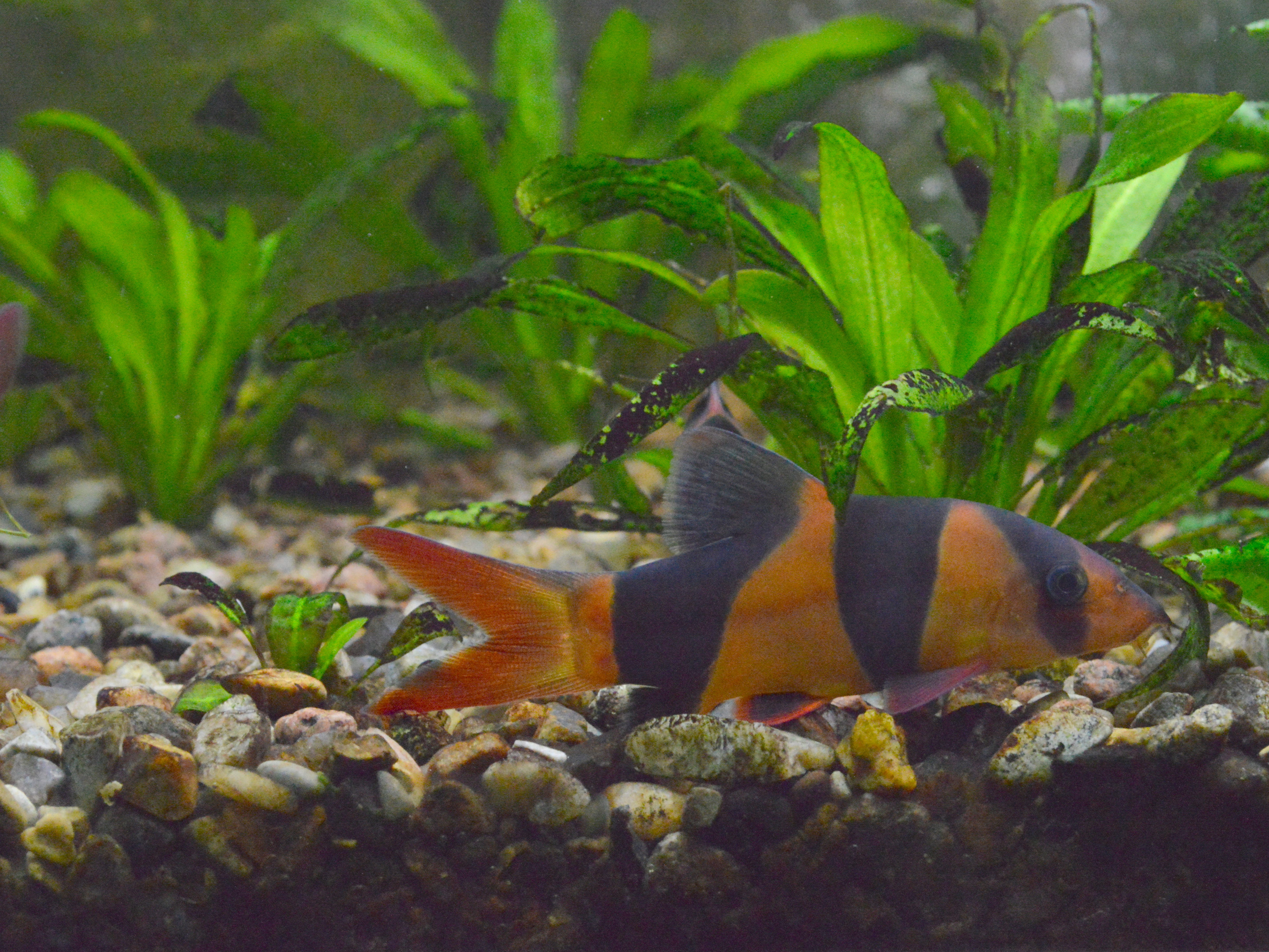 Tiger loach in a planted freshwater aquarium.